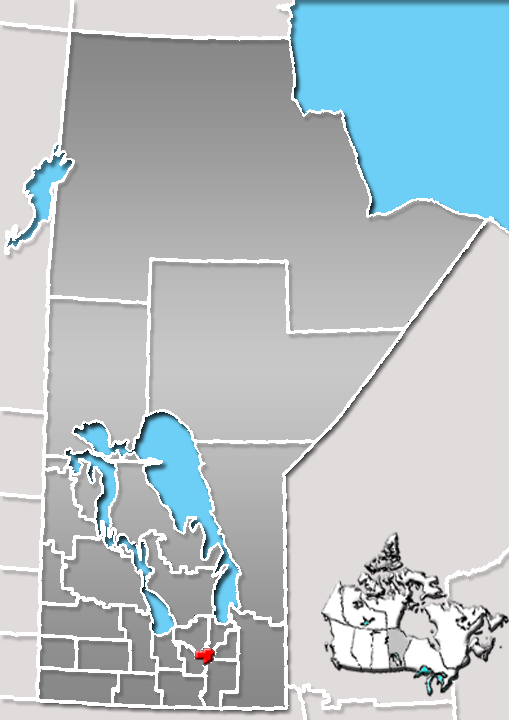 Location of Winnipeg, Manitoba